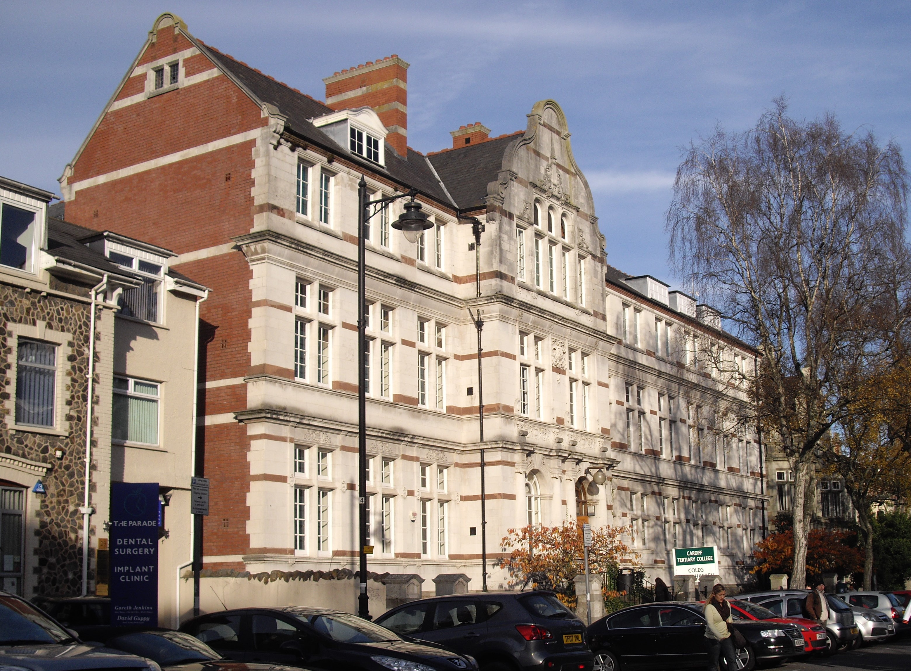 24-27 The Parade (Cardiff and Vale College), Cardiff, Wales